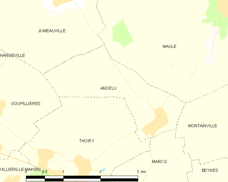 Map of French municipality Andelu